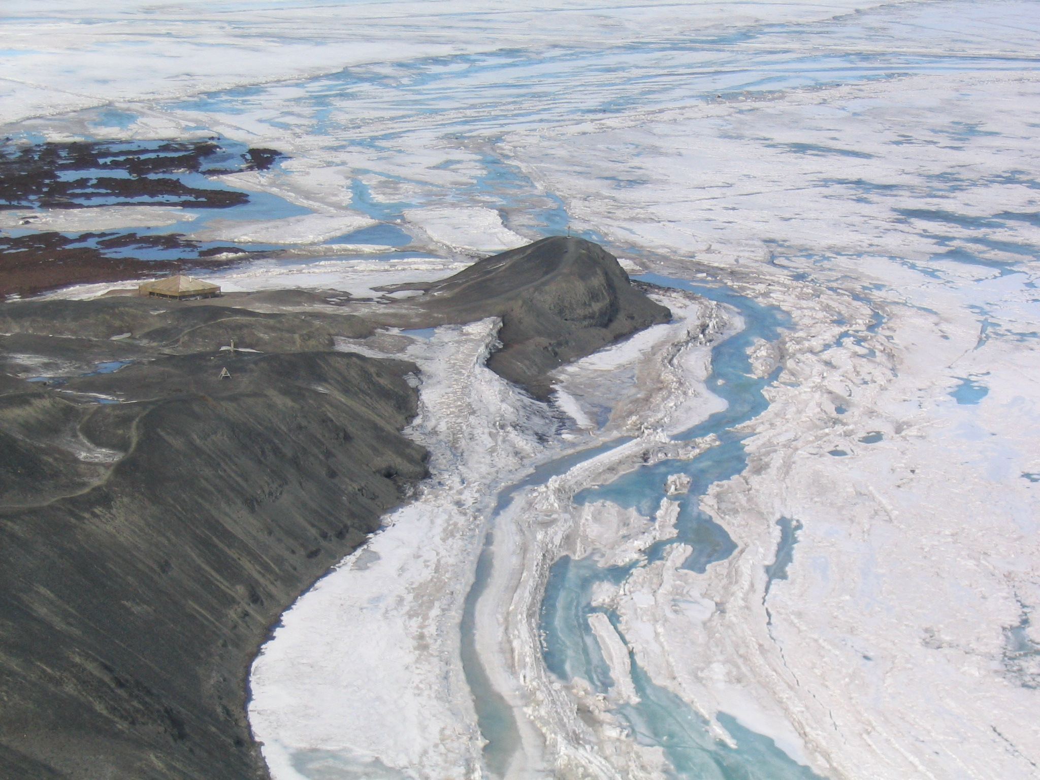 Aerial view of Hut Point, near McMurdo Station, Antarctica